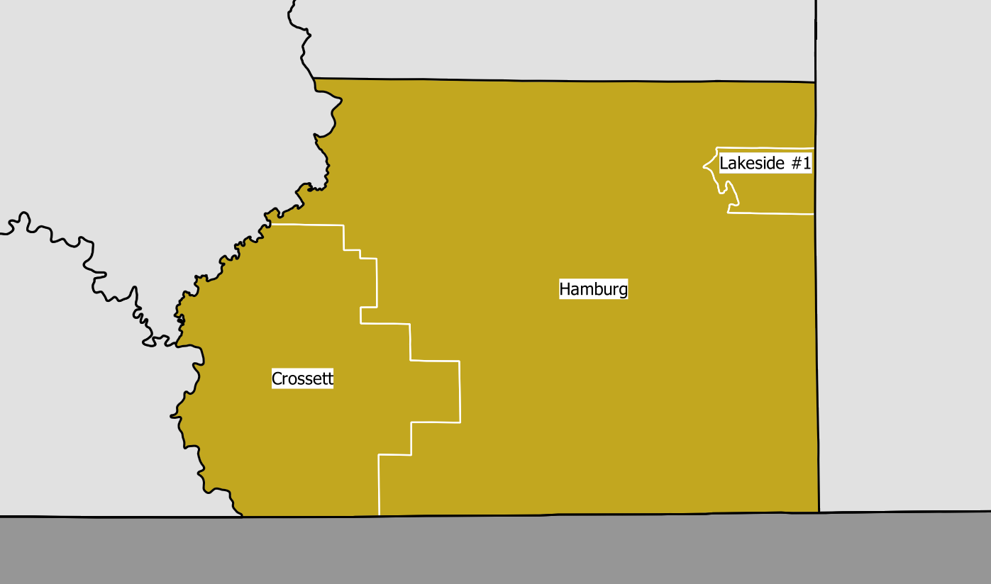 Map of all public school districts in Ashley County, AR (mustard) This graphic was created with QGIS Counties Data source: Arkansas GIS Office. Data Provided by Arkansas State Highway and Transportation Department, In Cooperation With The U.S. Department of Transportation Updated 2014-10-16 Public School District Boundary (polygon) (only shown within county of interest): Data source: Arkansas Secretary of State and the Arkansas Geographic Information Systems Office Updated: 2016-07-22